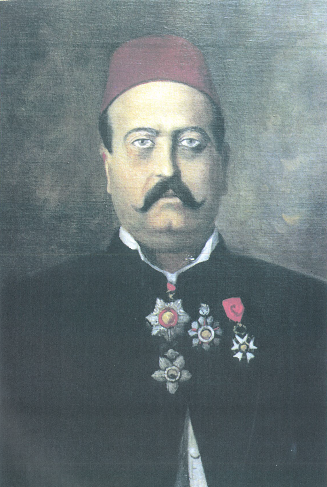 Founder of Al-Ahram Newspaper, Selim Taqla.